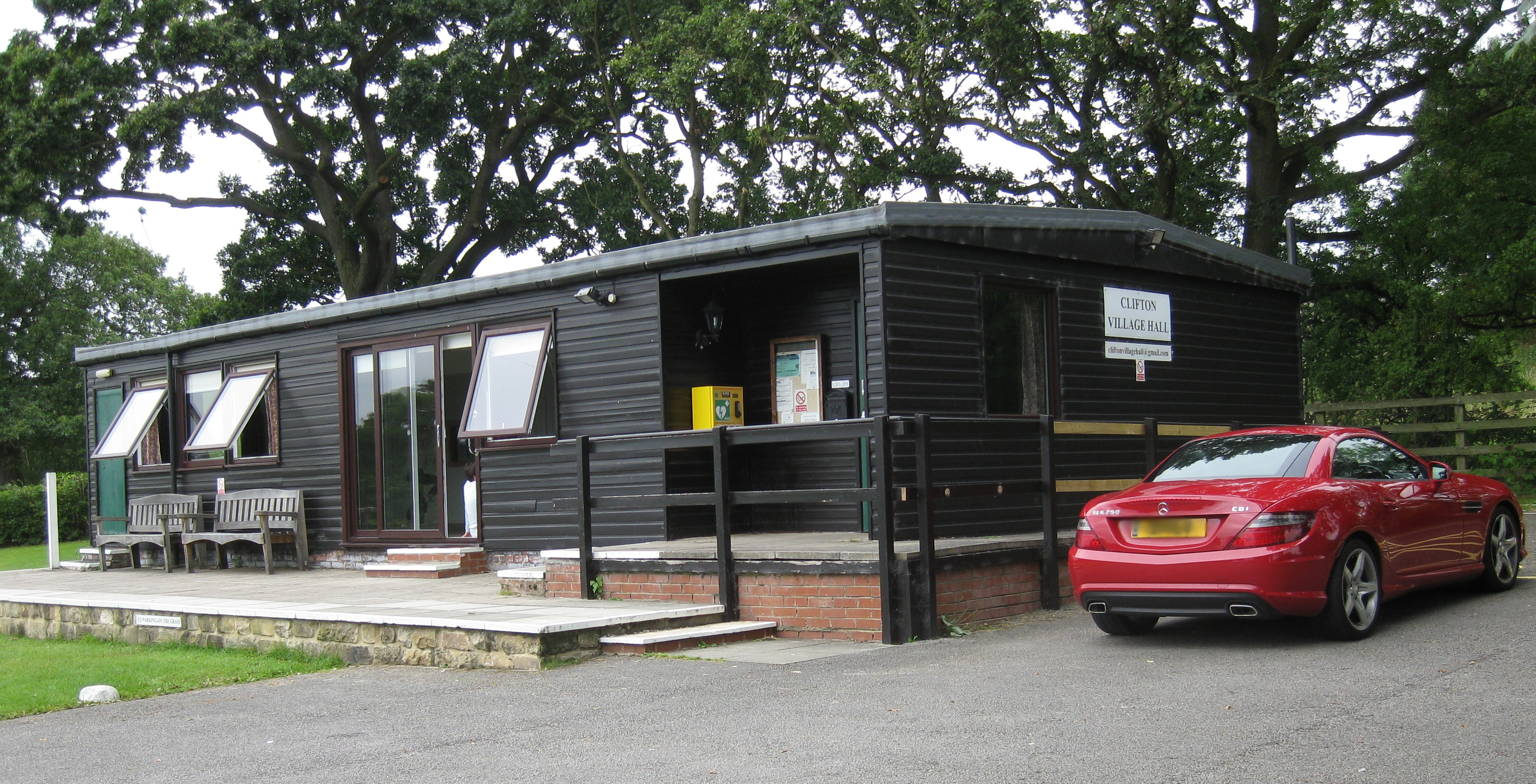 Clifton Village Hall, off Newall Carr Road,Newall With Clifton, Otley LS21 2EX